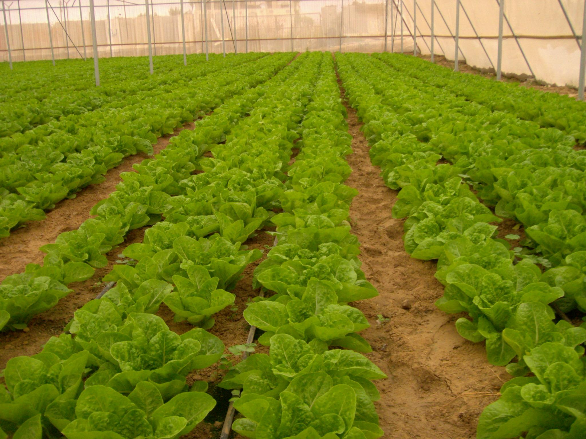 Salads from Gush katif.jpg